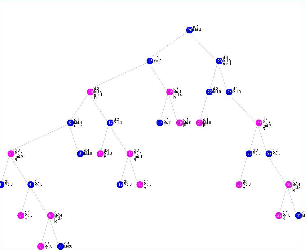 Tango Tree 10